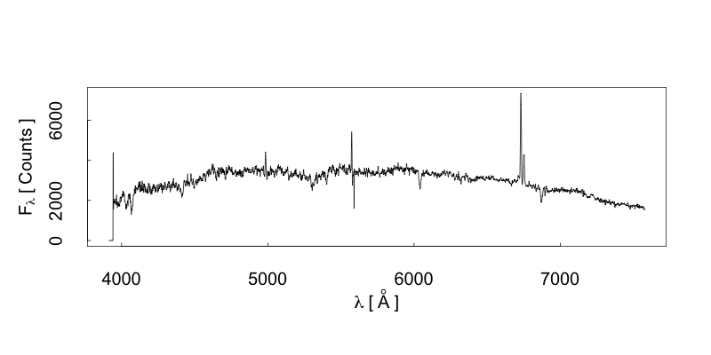 Optical spectrum of the nucleus of NGC 1099 obtained with the Anglo-Australian Telescope in the range from 3913.0 Å to 7578.1 Å with resolution 5.8 Å.